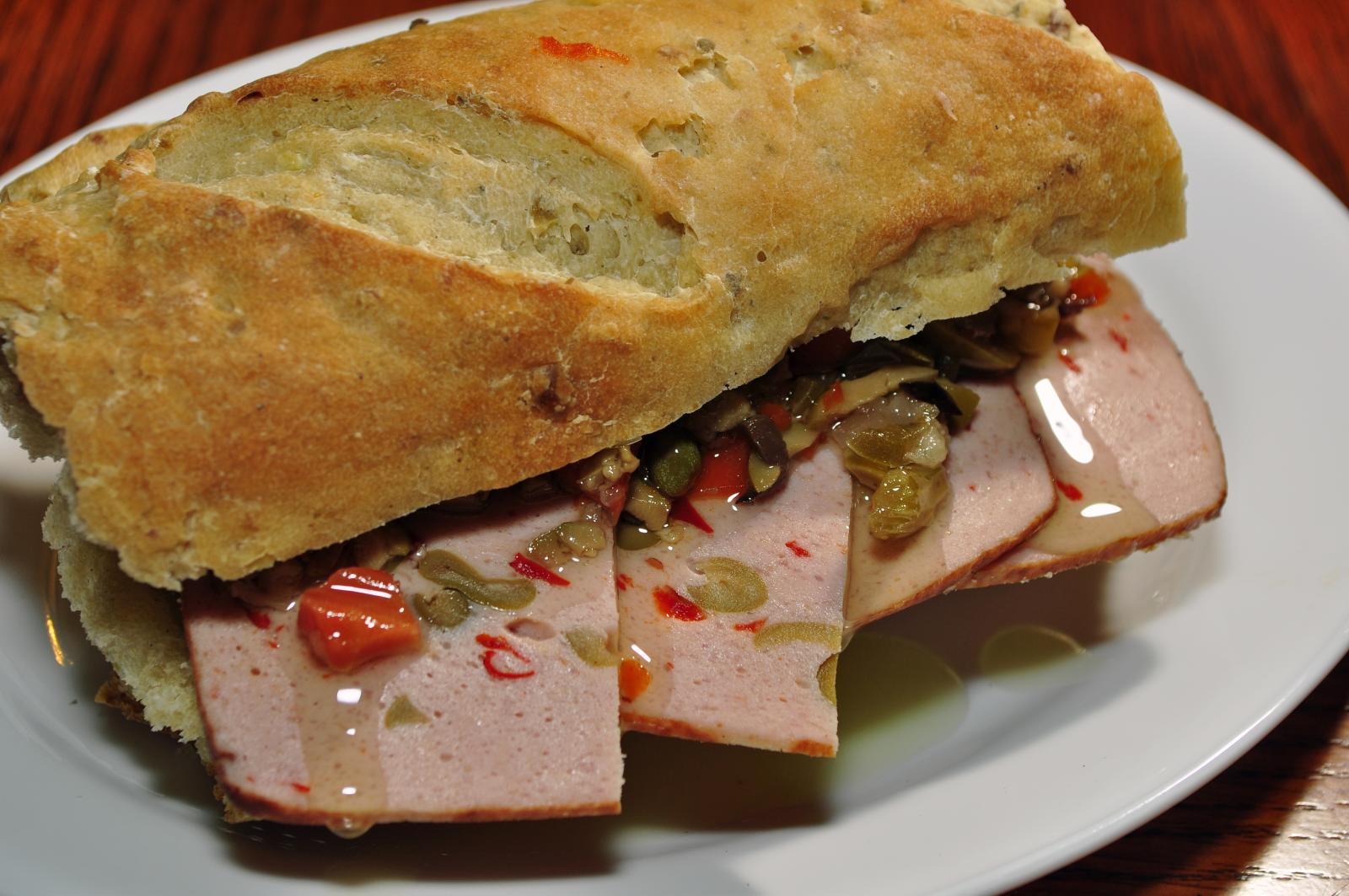 An olive loaf sandwich prepared with olive bread, olive loaf, olive topping, and olive oil.